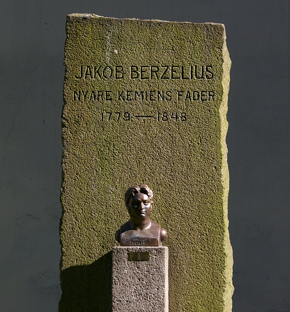 Berzelius (2006), bronze bust by Bo Olls (1949–), erected in the park by Linköping Cathedral in Sweden.